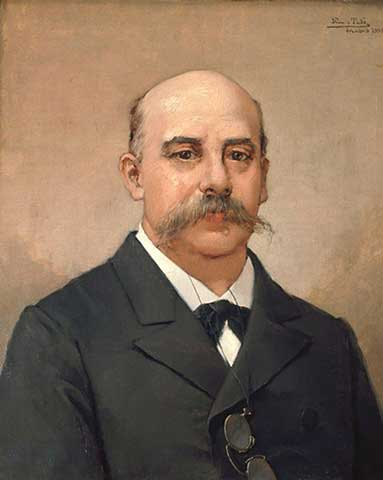 Castelar, Emilio; Spanish politician and writer (1873/74 Prime Minister); Cadiz 8.9.1832-Pinatar 25.5.1899.-Portrait.-Painting, undated, by José Nin y Tudó (1840-1908). Oil on canvas.